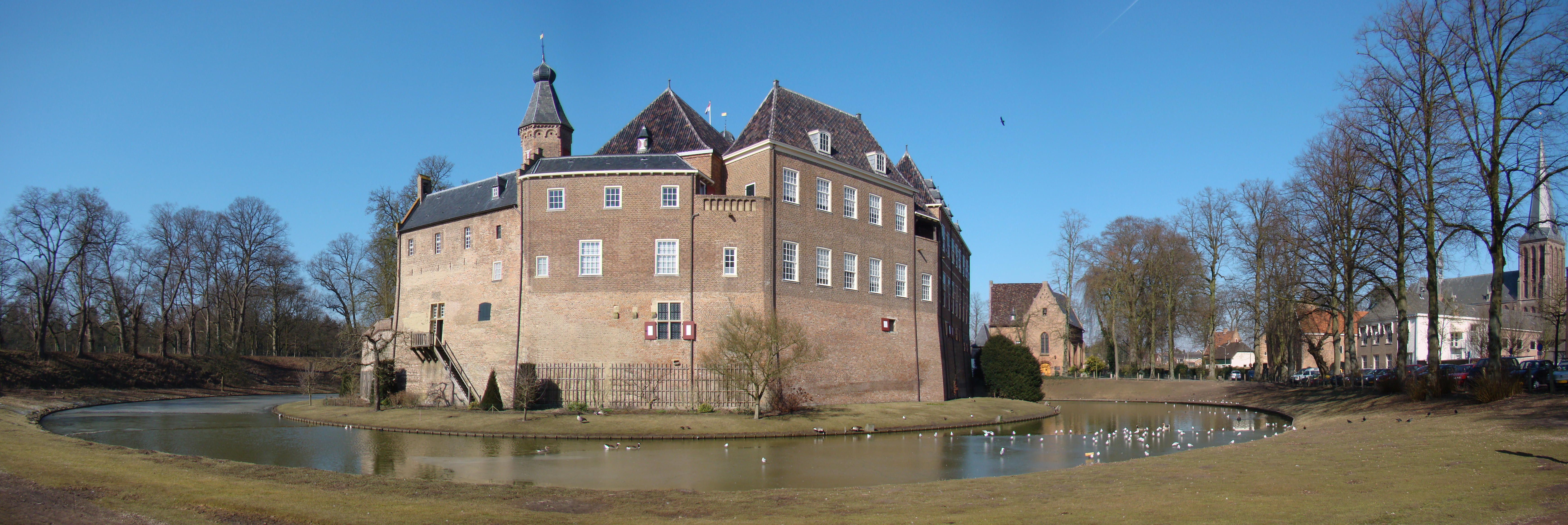 Eastside Castle Bergh 's Heerenberg (Netherlands)